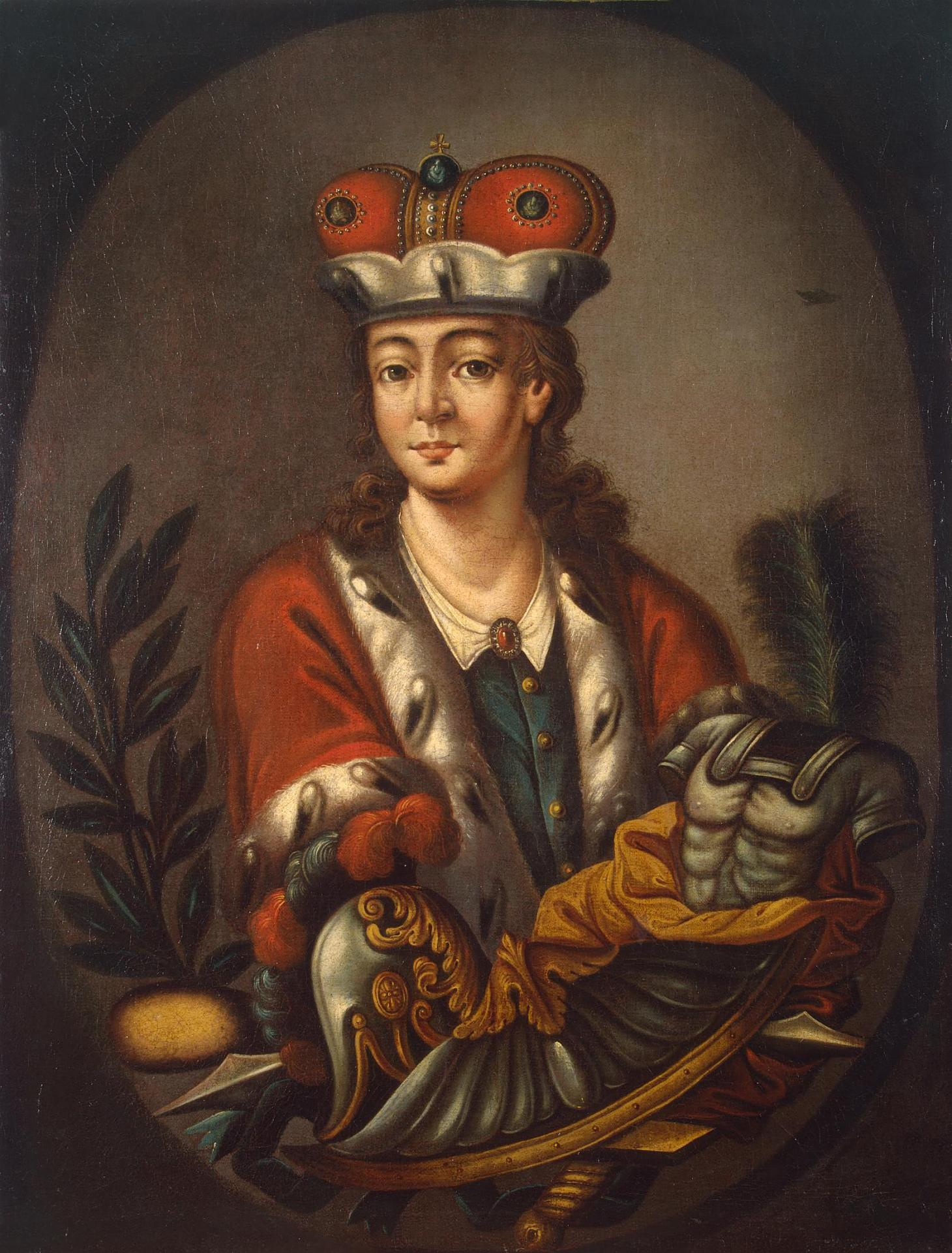 Portraiture, Painting